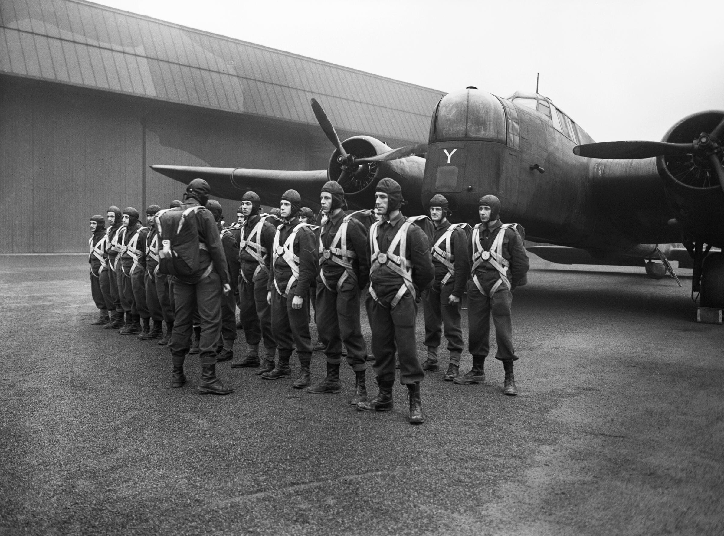 Parachute troops on parade in front of a Whitley bomber at RAF Ringway, Manchester, January 1941. Parachute troops on parade in front of a Whitley bomber pressed into service in the airborne role, RAF Ringway, Manchester, January 1941.